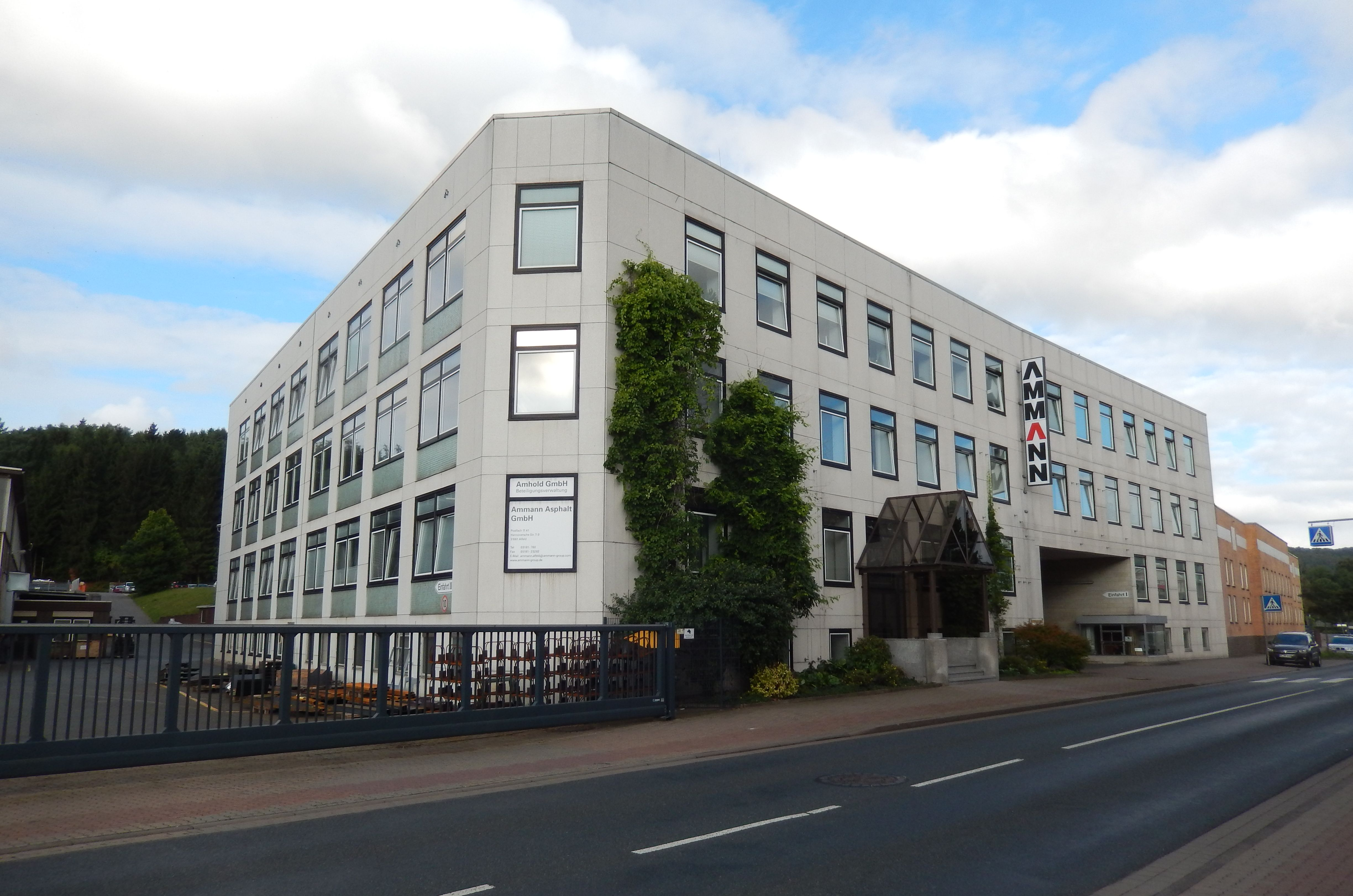 Ammann Asphalt Office building in Alfeld, Germany.